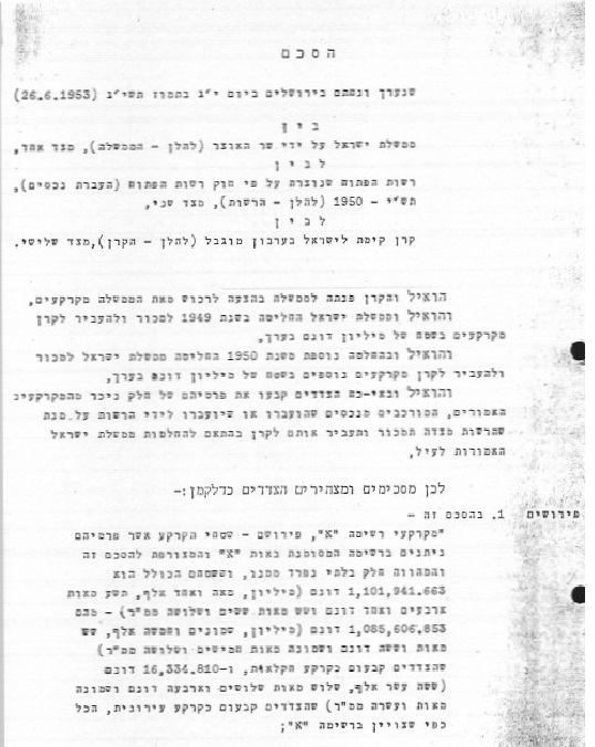 JNF - Israeli government agreement 1953